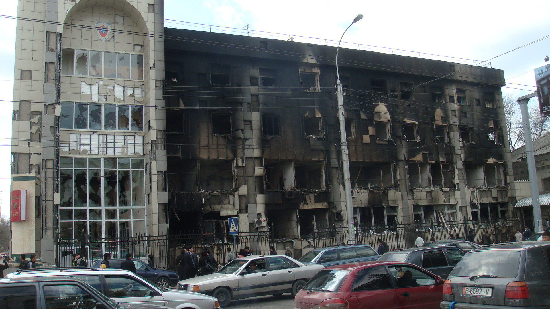 Prosecutor's office in Bishkek, Kyrgyzstan burns throughout the night following citywide protests and rioting.